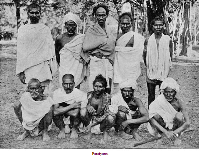 Group of Paraiyar labourers in Madras Presidency, 1909